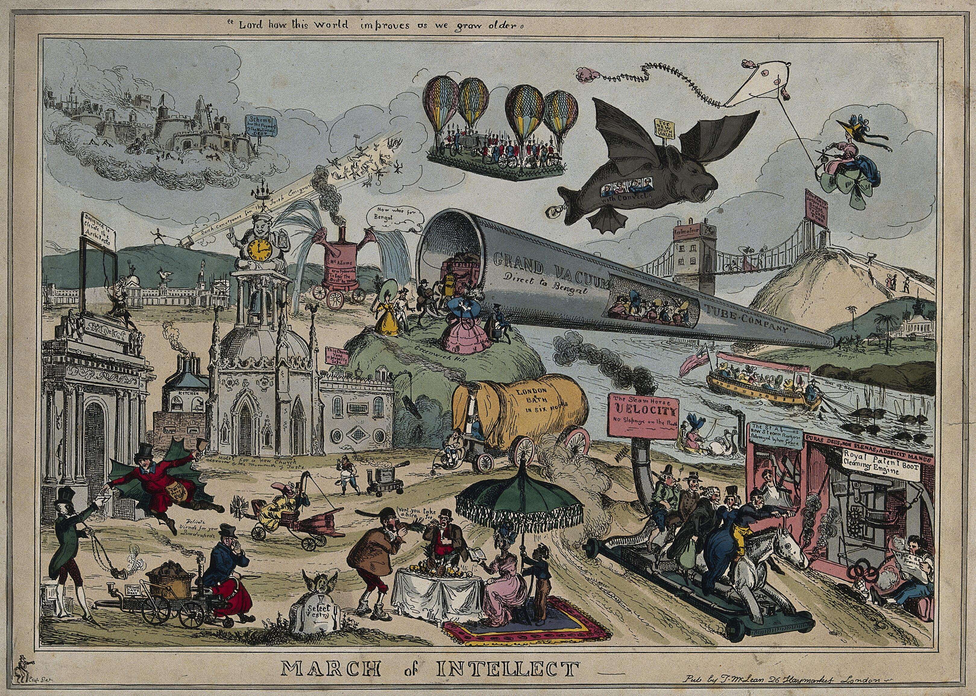 A futuristic vision: the advance of technology leads to rapid transport, sophisticated tastes among the masses, mechanization, and extravagant building projects. Coloured etching by W. Heath